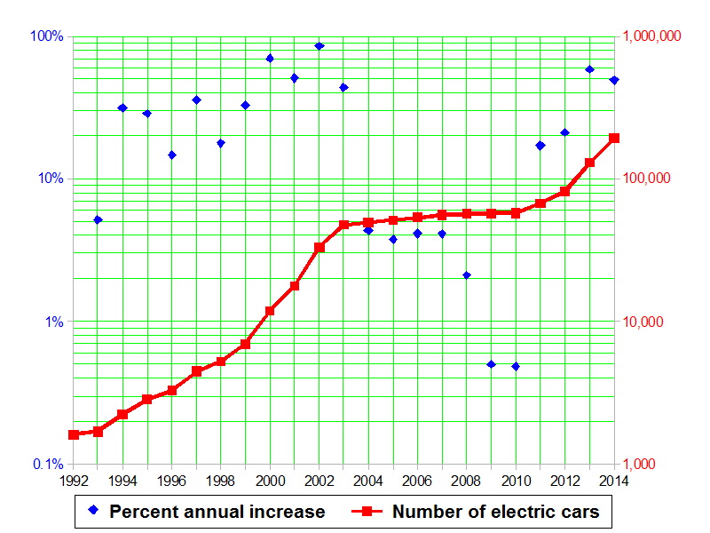 Plot of U.S. electric car counts data (red) in the article electric car of May 6, 2009, with annual percentage increases (blue)